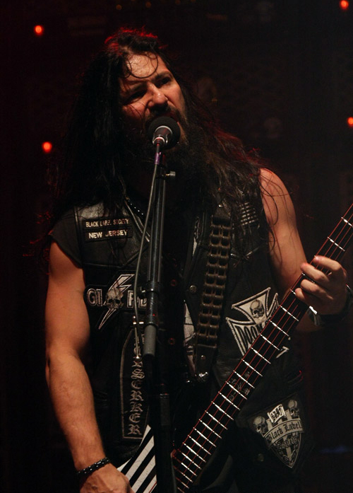 John "JD" DeServio live with Black Label Society.